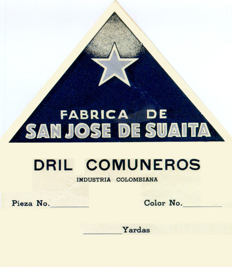 Product tag in the San Jose de Suaita Cotton Mill Museum — in San José de Suaita, Colombia.